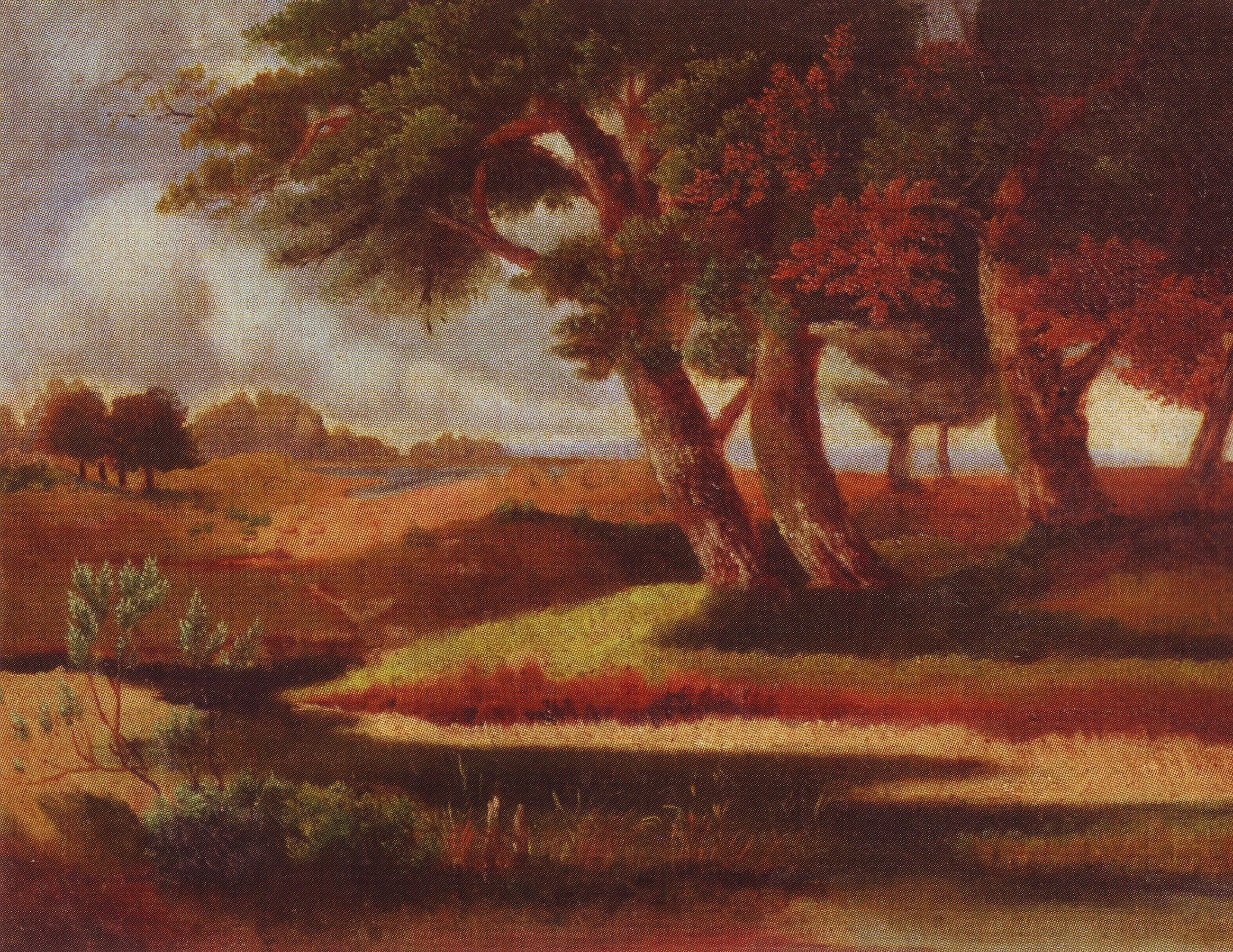 Krajinka (Landscape) - oil on canvas (32x40) - 1860's Srpski (latinica): Krajinka (Pejzaž) - ulje na platnu (32x40) - šezdesete godine 19. veka